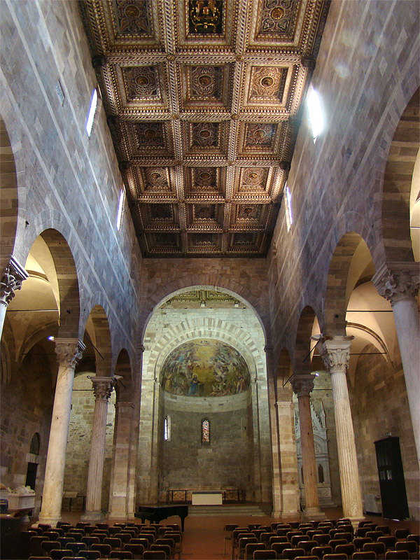 Church of Santi Giovanni e Reparata, Lucca, Tuscany, Italy.